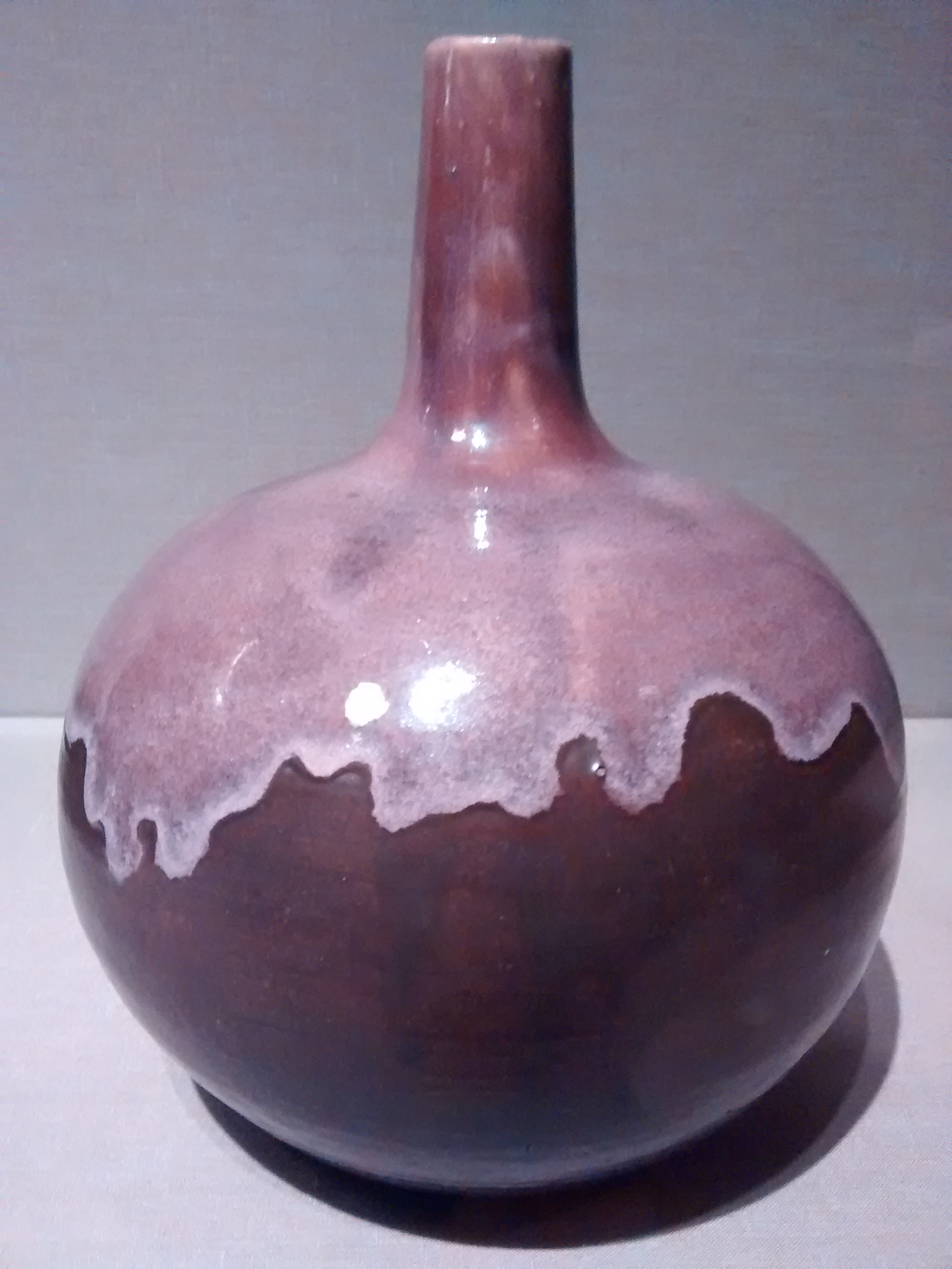 Description from the Detroit Institute of Arts: Bottle, about 1930 Glazed earthenware Mary Chase Perry Stratton American, 1867–1961 Pewabic Pottery Detroit, Michigan